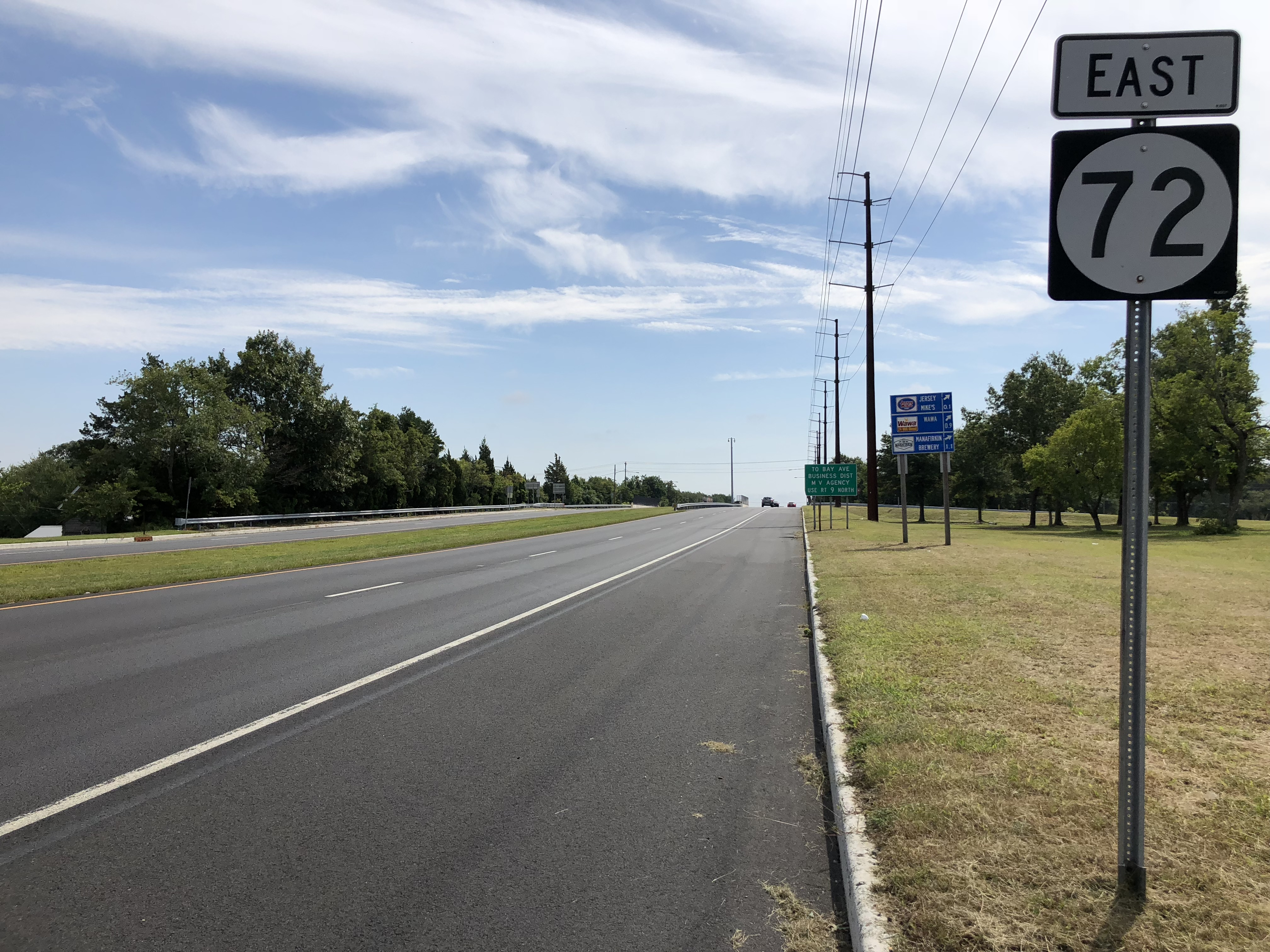 View east along New Jersey State Route 72 at U.S. Route 9 (Main Street) in Stafford Township, Ocean County, New Jersey